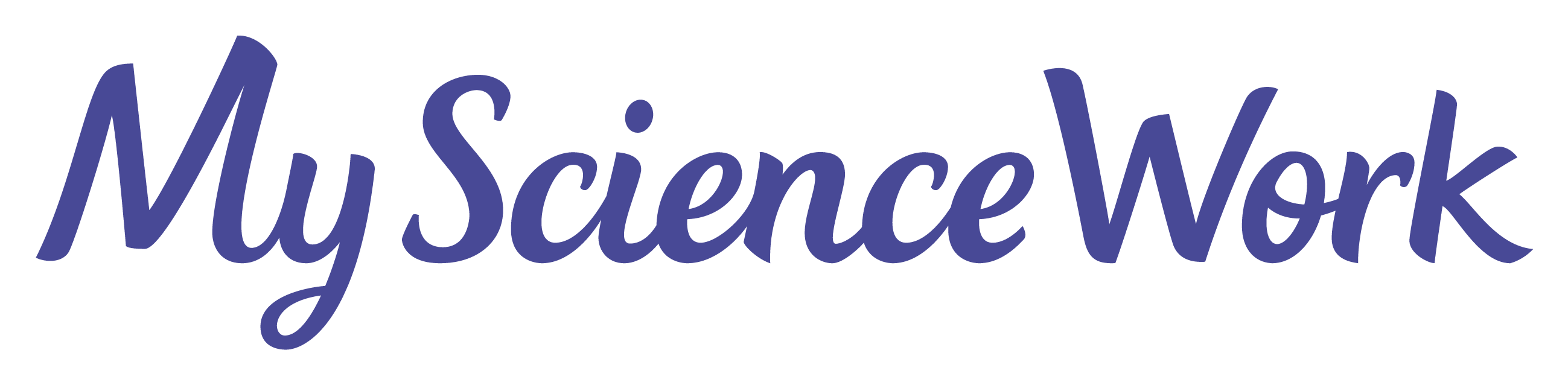 This file is the official logo of the scientific network MyScienceWork.